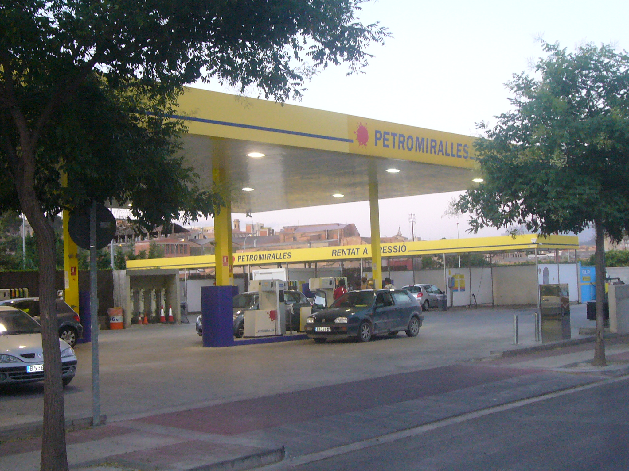 Petromiralles petrol station in Igualada , carrer del Rec